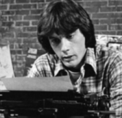 Jean-Luc Montminy has done over 500 films as one of Quebec's leading voice-over artists. ( . As Michael's assistant for many years, I, Dave Bradley, had the pleasure to meet Jean-Luc Montminy and to snap this personal photo. Note for copyright purposes, this photo was taken by either an employee of, or by a photographer hired by Michael Laucke. It is a work for hire, owned and paid for by Michael Laucke. It is hereby licensed under Public Domain Dedication (CC0); ALL RIGHTS WAIVED! Nevertheless, if you use this photo, you must use the correct attribution, which is at least: Jean-Luc Montminy voice-over artist.